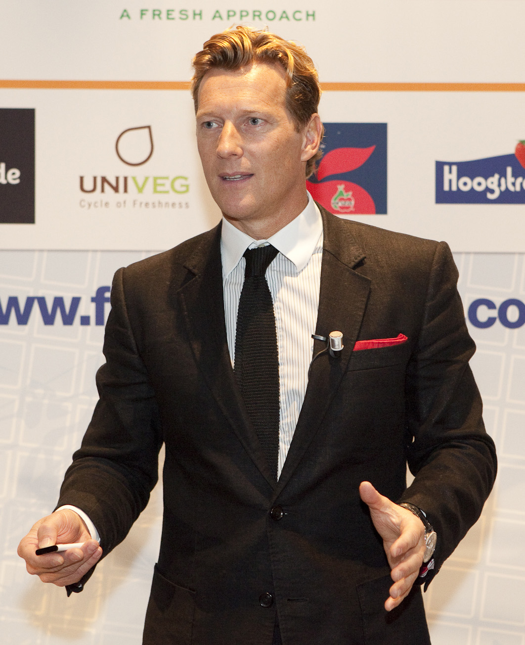 Cropped version of File:Magnus Scheving 2.jpg